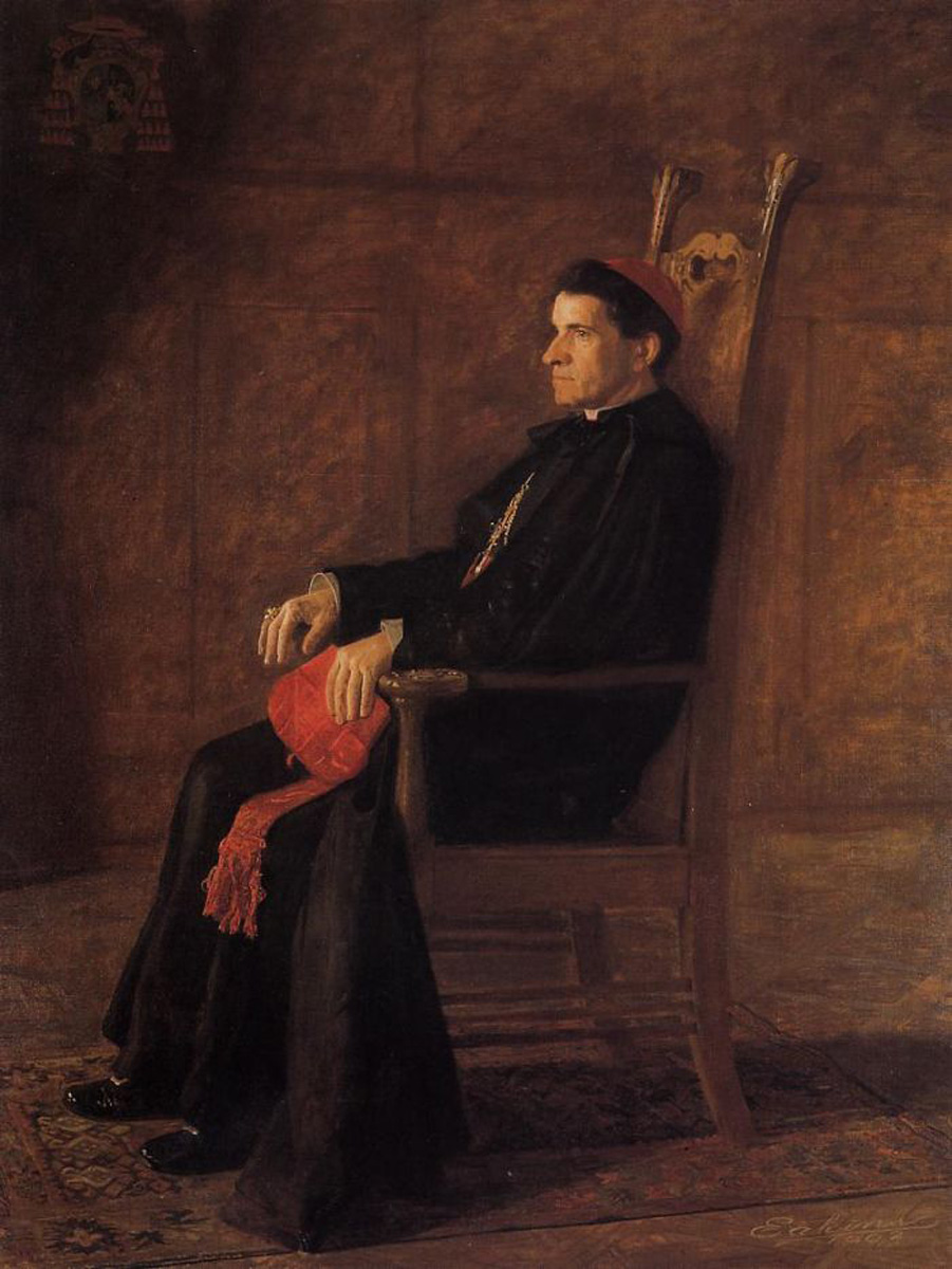 Painting by Thomas Eakins